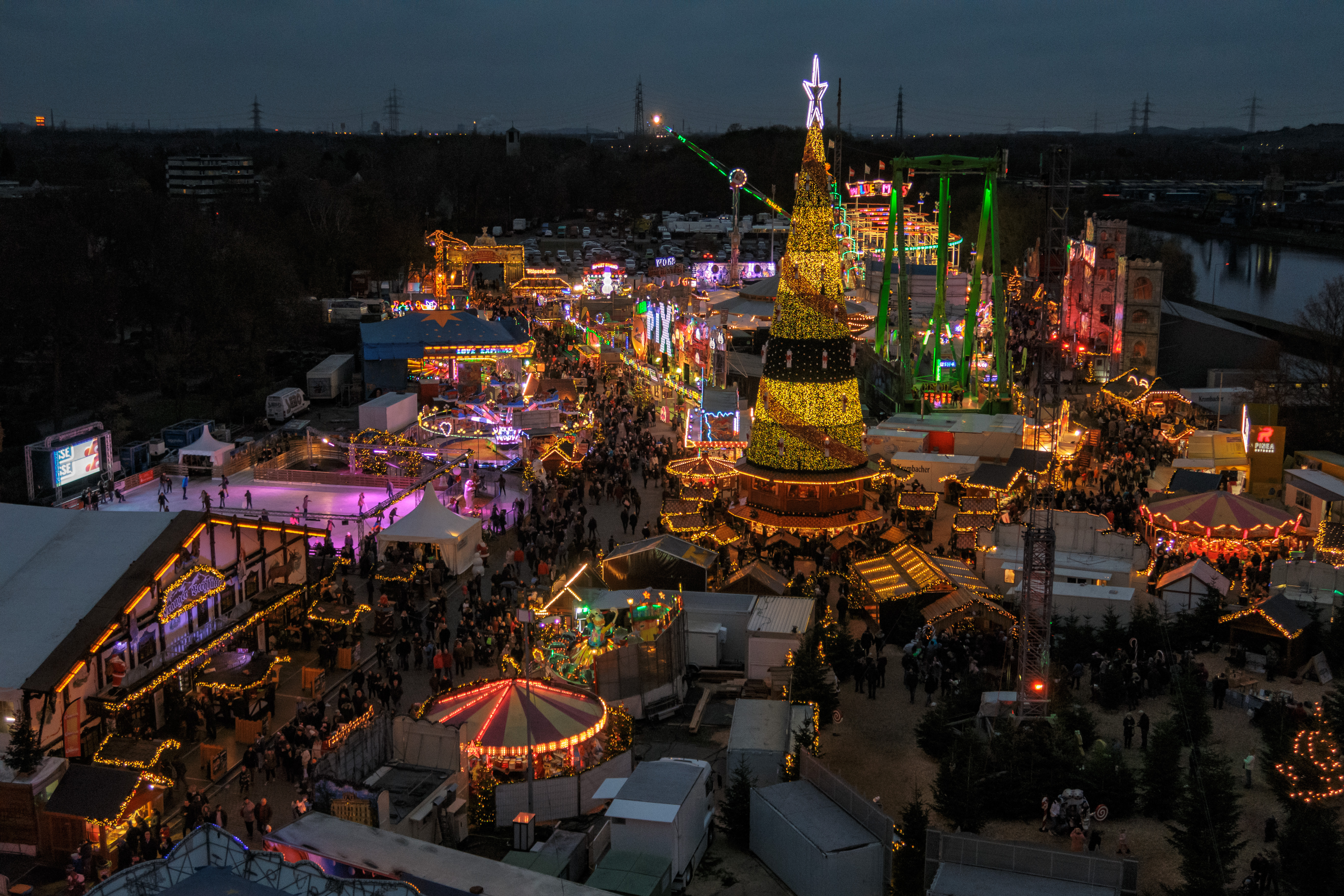 Cranger Weihnachtszauber 2018 - view from ferris wheel